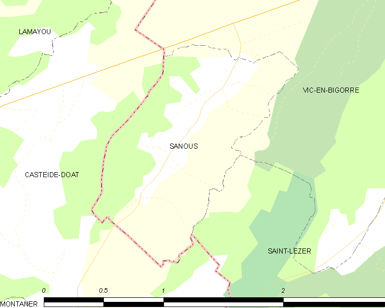 Map of French municipality